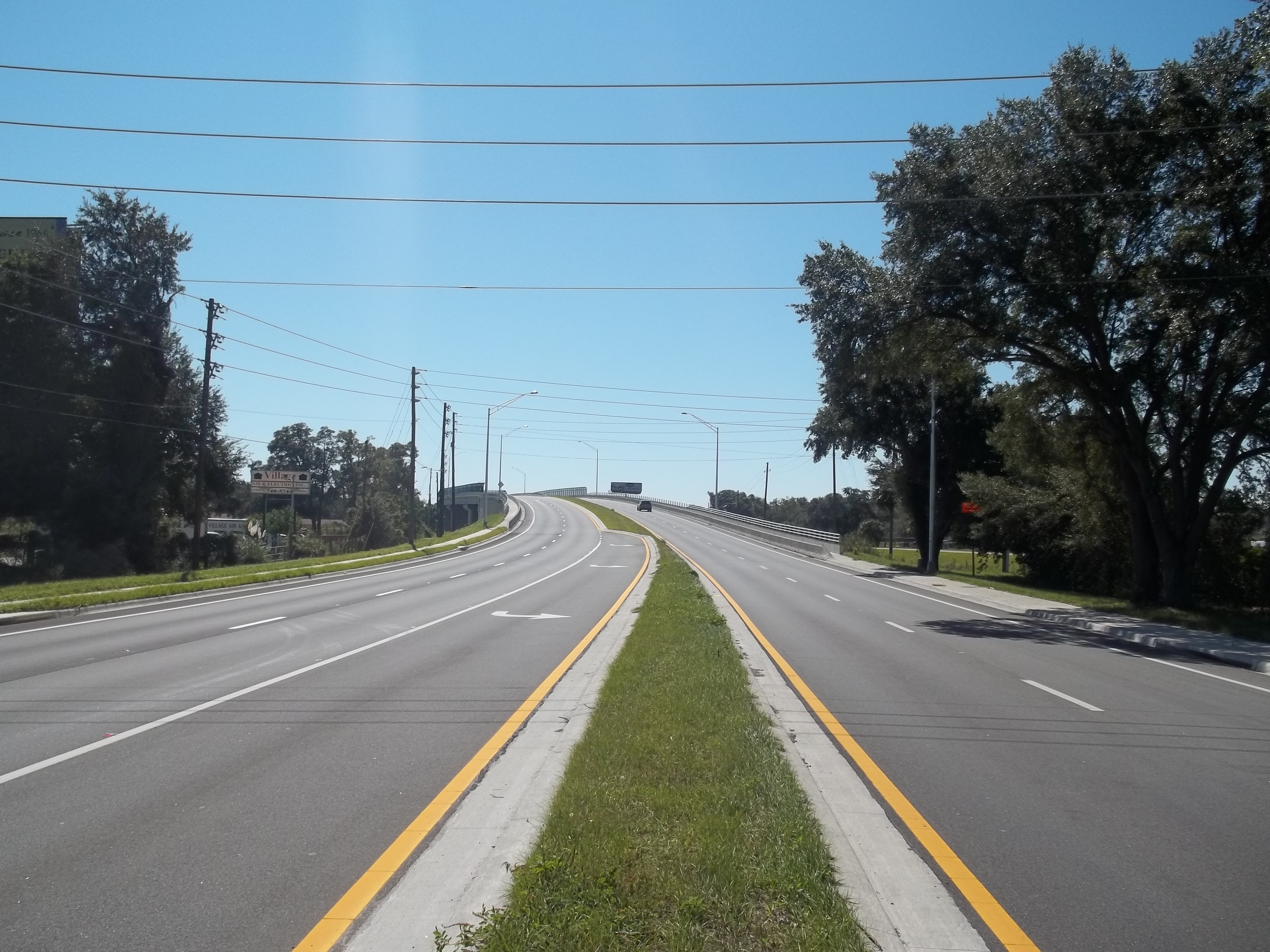 Wildwood, Florida: Completed US 301 bridge, looking south.